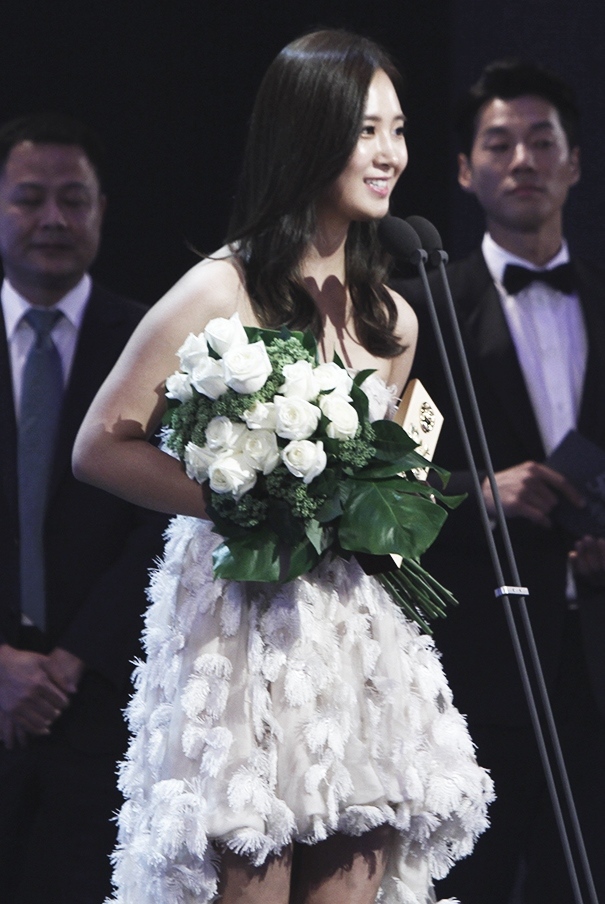 Kwon Yu-ri at the Paeksang Arts Awards on May 27, 2014